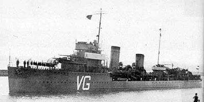 Dutch Admiralen-class destroyer Van Galen (1929)